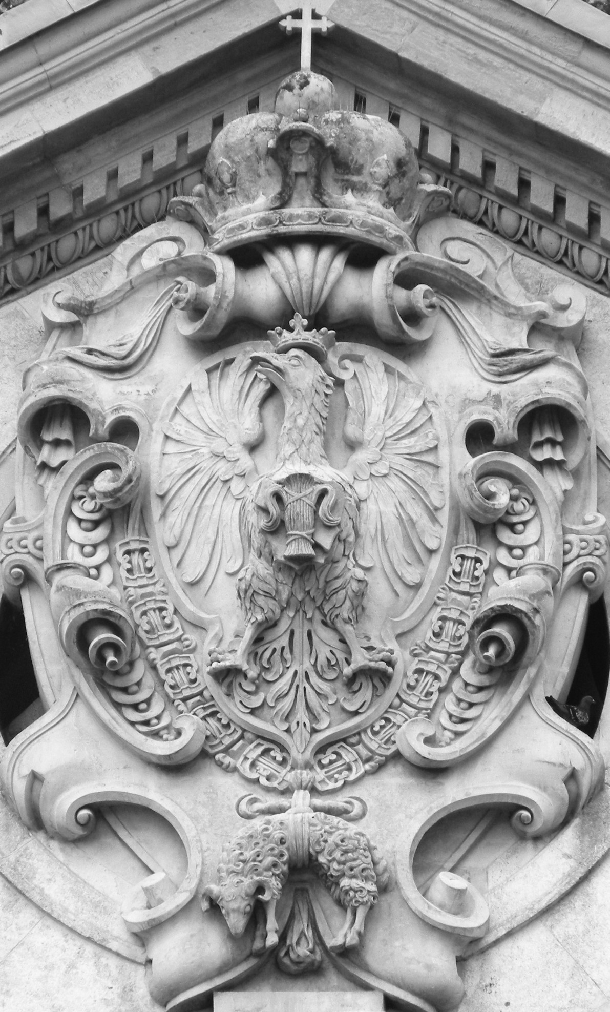 Coat of arms of Sigismund III Vasa. Attic of Saints Peter and Paul Church, Kraków.